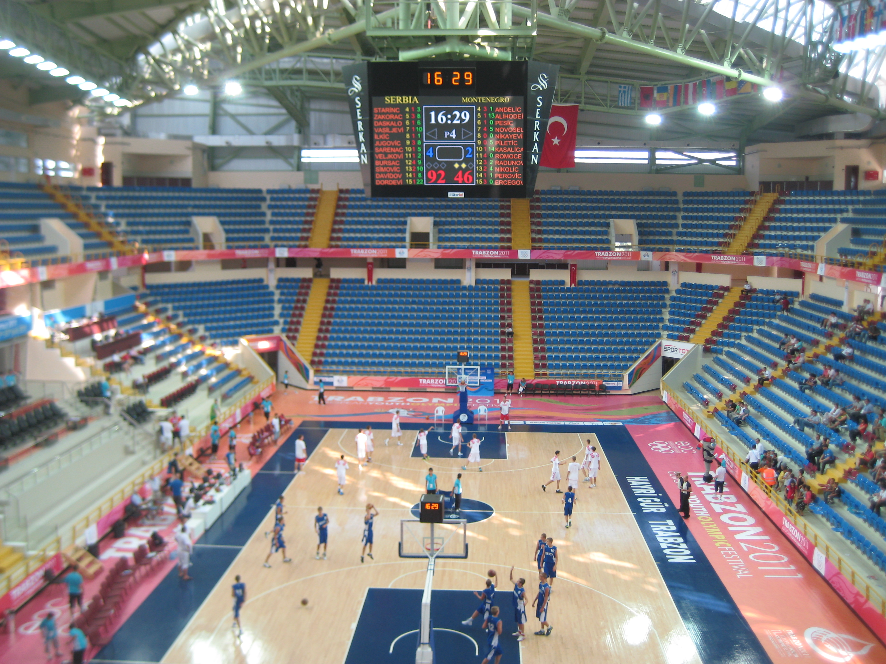 Trabzon Hayri Gür Dome, EYOF 2001 Serbia-Montenegro mach.